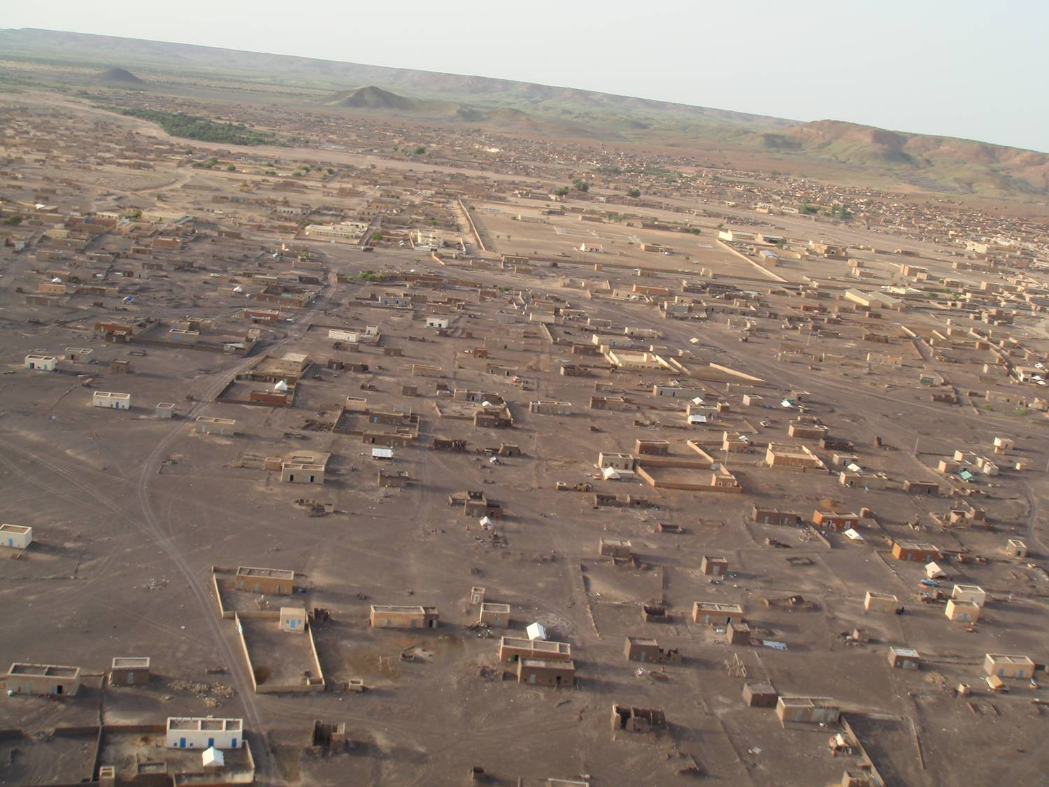 Photo taken August 2007 by an unknown US Army soldier while he was stationed in Nema for a training exchange. Photo was given to a Peace Corps Volunteer assigned to Nema in September 2007.